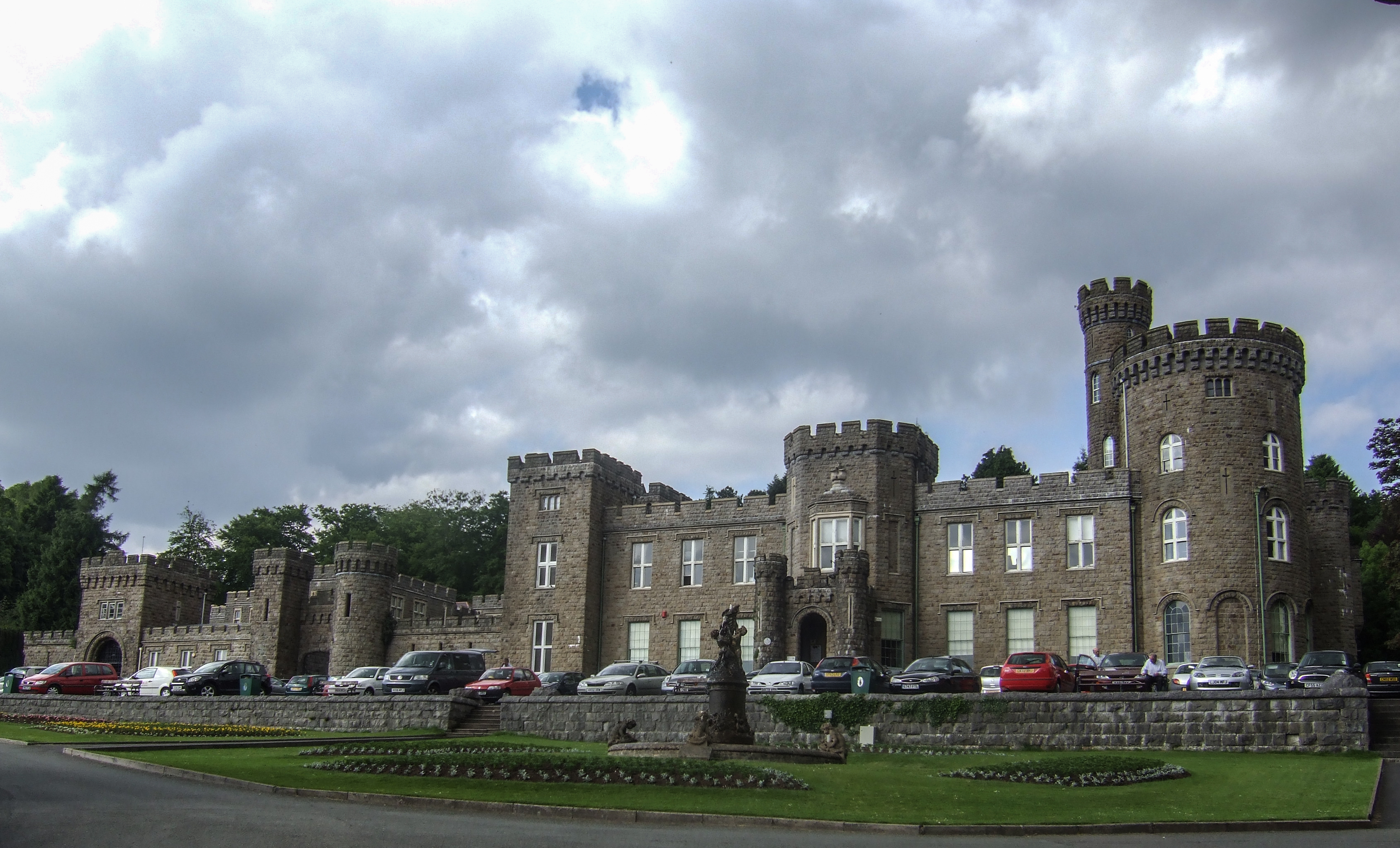 Front view of Cyfarthfa Castle, Merthyr Tydfil, South Wales.